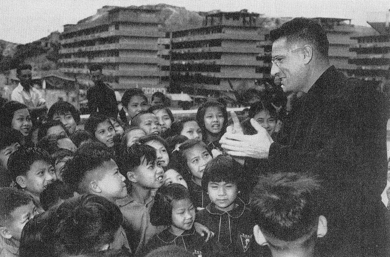 fr Peter Reilly preaching in Kowloon